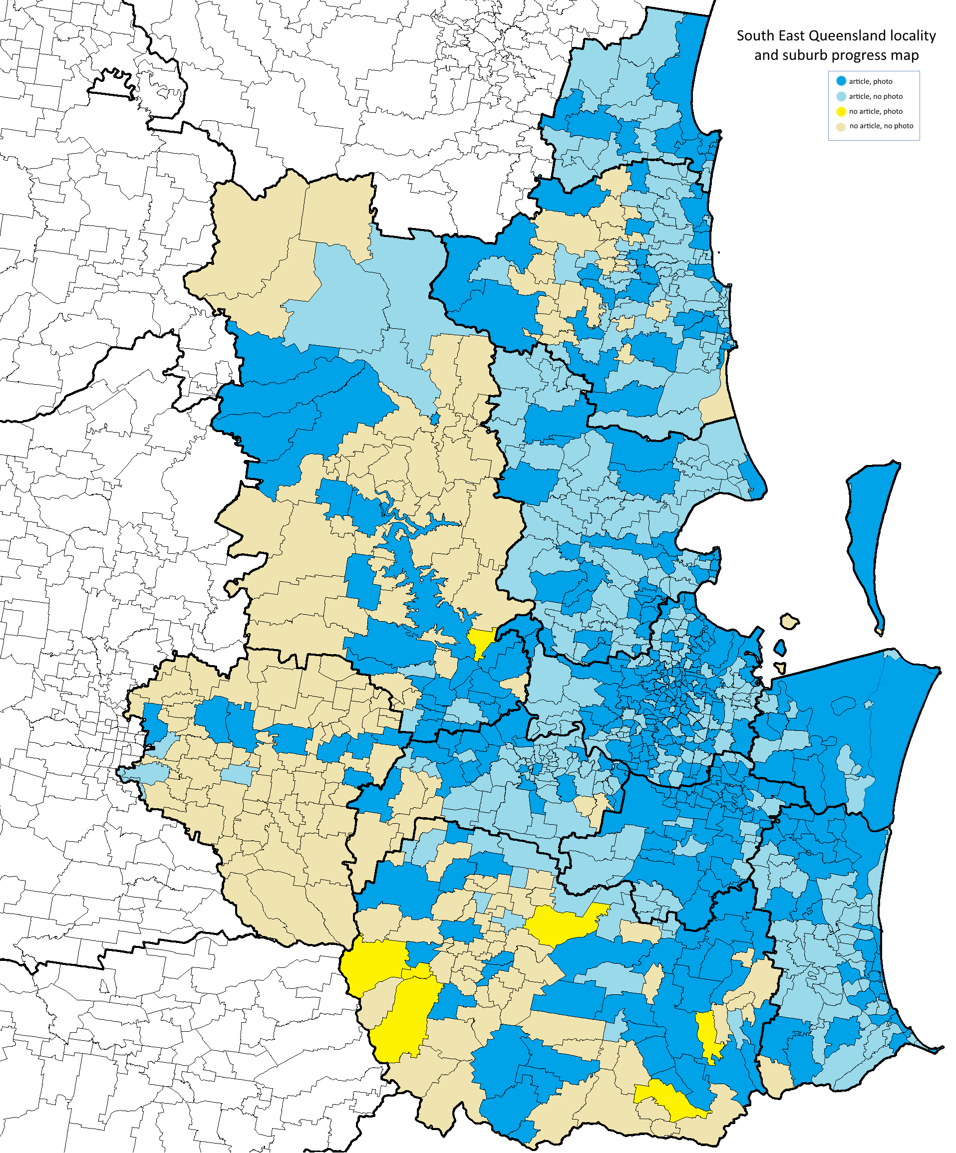 Map of South East Queensland localities and suburbs showing article progress. Data was obtained from here and software used includes MapWindow GIS, and Microsoft Paint.